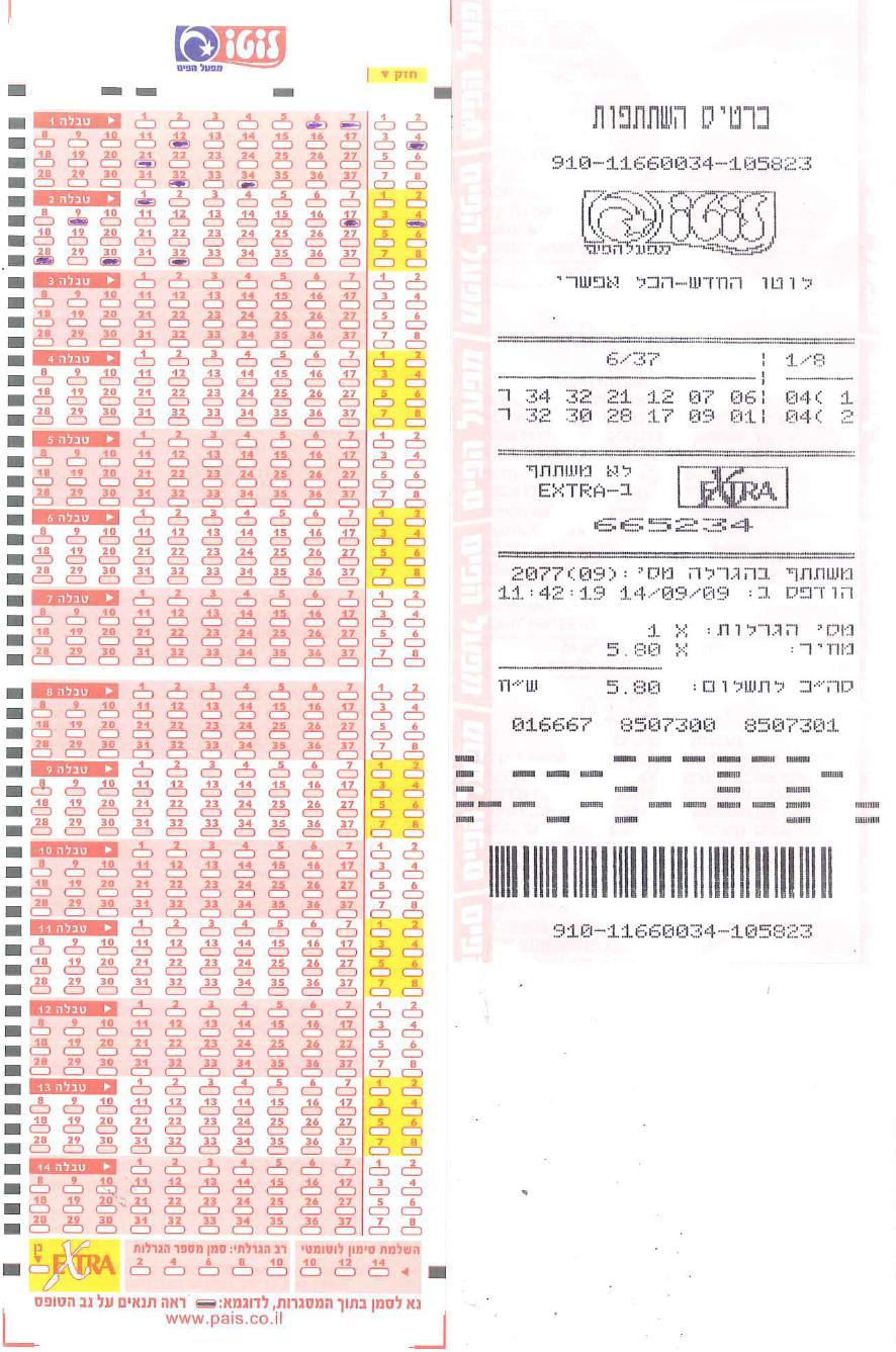 Scan of the new Israeli lottery ticket